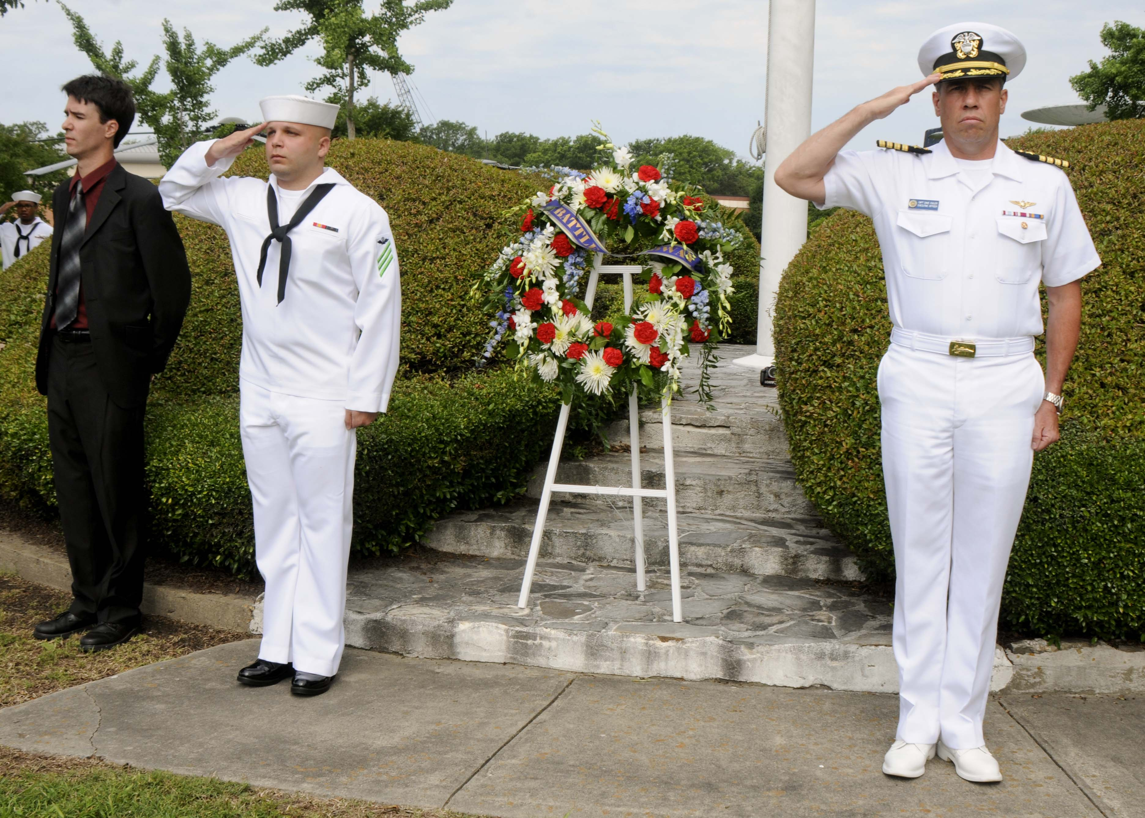 NORFOLK (June 4, 2012) Capt. Dave Culler, executive officer of Naval Station Norfolk, right, Air-Traffic Controller Airman Louis Cusanelli and Dr. Timothy Orr, a professor of history at Old Dominion University, stand at attention and salute during national anthem at a Battle of Midway wreath laying ceremony at Naval Station Norfolk. The ceremony commemorates the 70th anniversary of the Battle of Midway and honors the men who fought and died for the United States June 4 through 7, 1942. (U.S. Navy photo by Mass Communication Specialist Seaman Chelsea Mandello/Released) 120604-N-XZ031-118 Join the conversation navylive.dodlive.mil